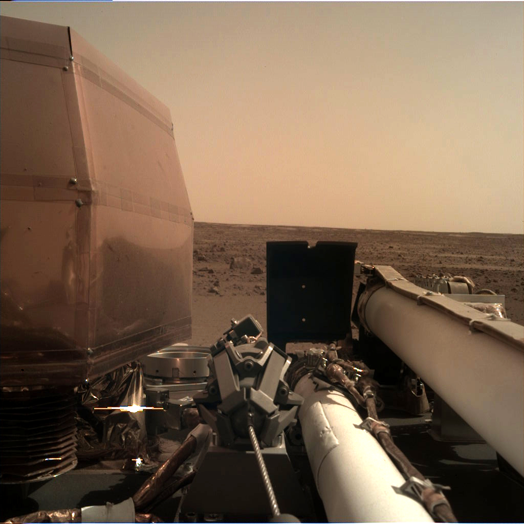 The Instrument Deployment Camera (IDC), located on the robotic arm of NASA's InSight lander, took this picture off the Martian surface on Nov. 26, 2018, the same day the spacecraft touched down on the Red Planet. The camera's transparent dust cover is still on in this image, to prevent particulates kicked up during landing from settling on the camera's lens. This image was relayed from InSight to Earth via NASA's Odyssey spacecraft, currently orbiting Mars. NASA's Jet Propulsion Laboratory, a division of Caltech in Pasadena, California, manages the InSight Project for NASA's Science Mission Directorate, Washington. Lockheed Martin Space, Denver, Colorado built the spacecraft. InSight is part of NASA's Discovery Program, which is managed by NASA's Marshall Space Flight Center in Huntsville, Alabama. For more information about the mission, go to